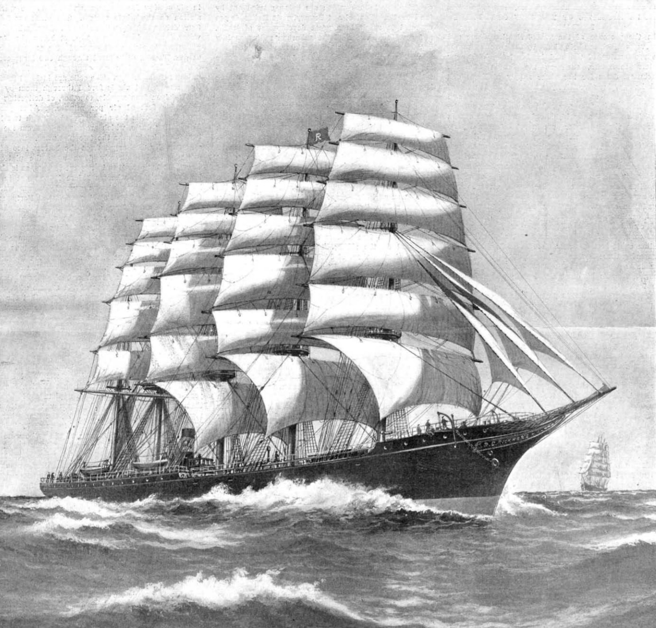 Painting of the German five-mast barque R. C. Rickmers by C.M. Knight-Smith 1906.